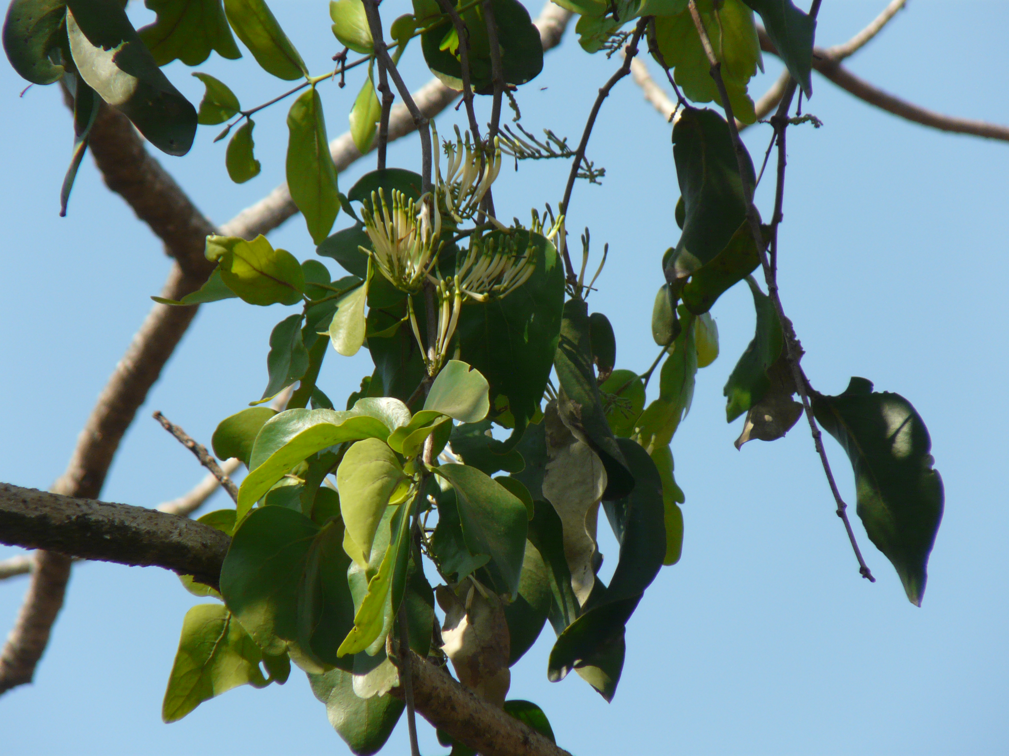 Loranthaceae (mistletoe family) » Dendrophthoe falcata den-droff-THOH-ee -- from the Greek dendron (tree) and phthoe (to waste away) fal-KAY-tuh -- sickle-shaped commonly known as: curved mistletoe, honey suckle mistletoe • Bengali: baramanda, পরগাছা paragaacha • Garo: tuthekmi • Gujarati: વંદો vando • Hindi: बंदा banda, बंदा पाठा banda patha, बन्दाल bandal • Kannada: ಬಮ್ದಣಿಕೆ bamdanike, ಮದುಕ maduk • Konkani: bemdram • Malayalam: ഇത്തിള്‍ iththil, ഇത്തിക്കണ്ണി ittikkanni • Marathi: बांडगुळ bandgul, बाशिंगी bashingi • Oriya: ବନ୍ଦା banda • Punjabi: amut • Sanskrit: वंदा vanda, वृक्षादनी vrksadani, वृक्षरुहा vrksaruha • Tamil: புல்லுரீ pulluri, புல்லுருவி pulluruvi, உசீ uchi • Telugu: జిద్దూ jiddu, యెలింగా yelinga Native to: Bhutan, India, Nepal, Sri Lanka References: Flowers of India • ENVIS - FRLHT